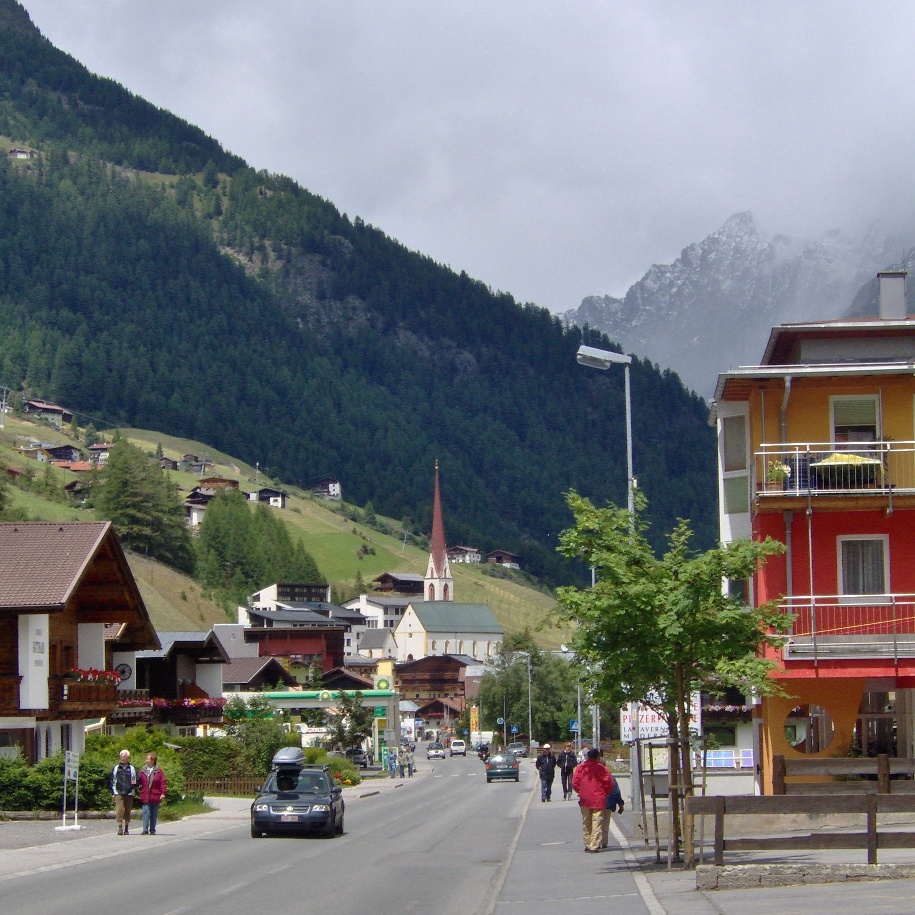 The Ötztal Strasse (B 186), the main street in the Ötz Valley in Sölden, Tyrol, Austria